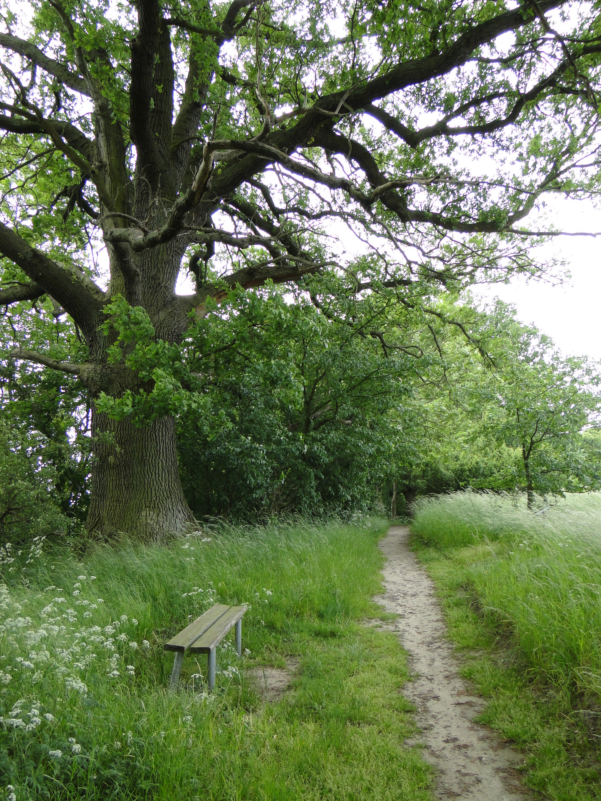 Hill Galgenberg at shore of lake Goldberger See in Goldberg, district Parchim, Mecklenburg-Vorpommern, Germany